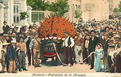 Alciato's Book of Emblems The Memorial Web Edition in Latin and English Andrea Alciato's Emblematum liber or Book of Emblems had enormous influence and popularity in the 16th and 17th centuries. It is a collection of 212 Latin emblem poems, each consisting of a motto (a proverb or other short enigmatic expression), a picture, and an epigrammatic text. Alciato's book was first published in 1531, and was expanded in various editions during the author's lifetime. It began a craze for emblem poetry that lasted for several centuries. We use the Latin text and images from an important edition of 1621 and we give a translation into English.